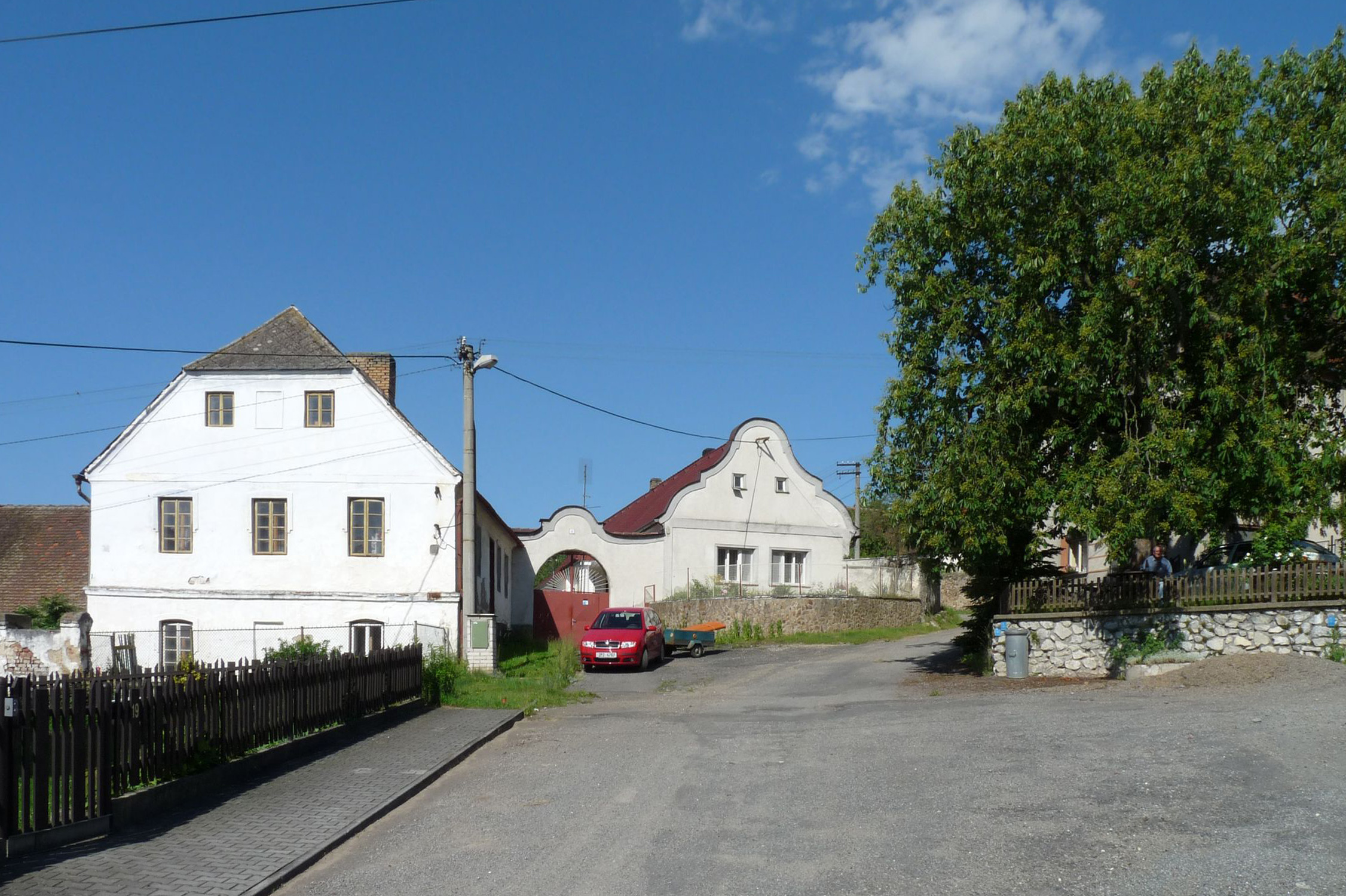 House No 17 in the municipality of Čímice, Klatovy District, Plzeň Region, Czech Republic.